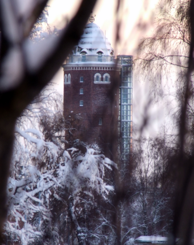 The old water tower in Myllytulli neighbourhood in Oulu, Finland. The tower designed by architect Birger Federley was built in 1921. The 45 metres tall tower is nowadays used as a viewing platform over the city of Oulu in the science centre Tietomaa.